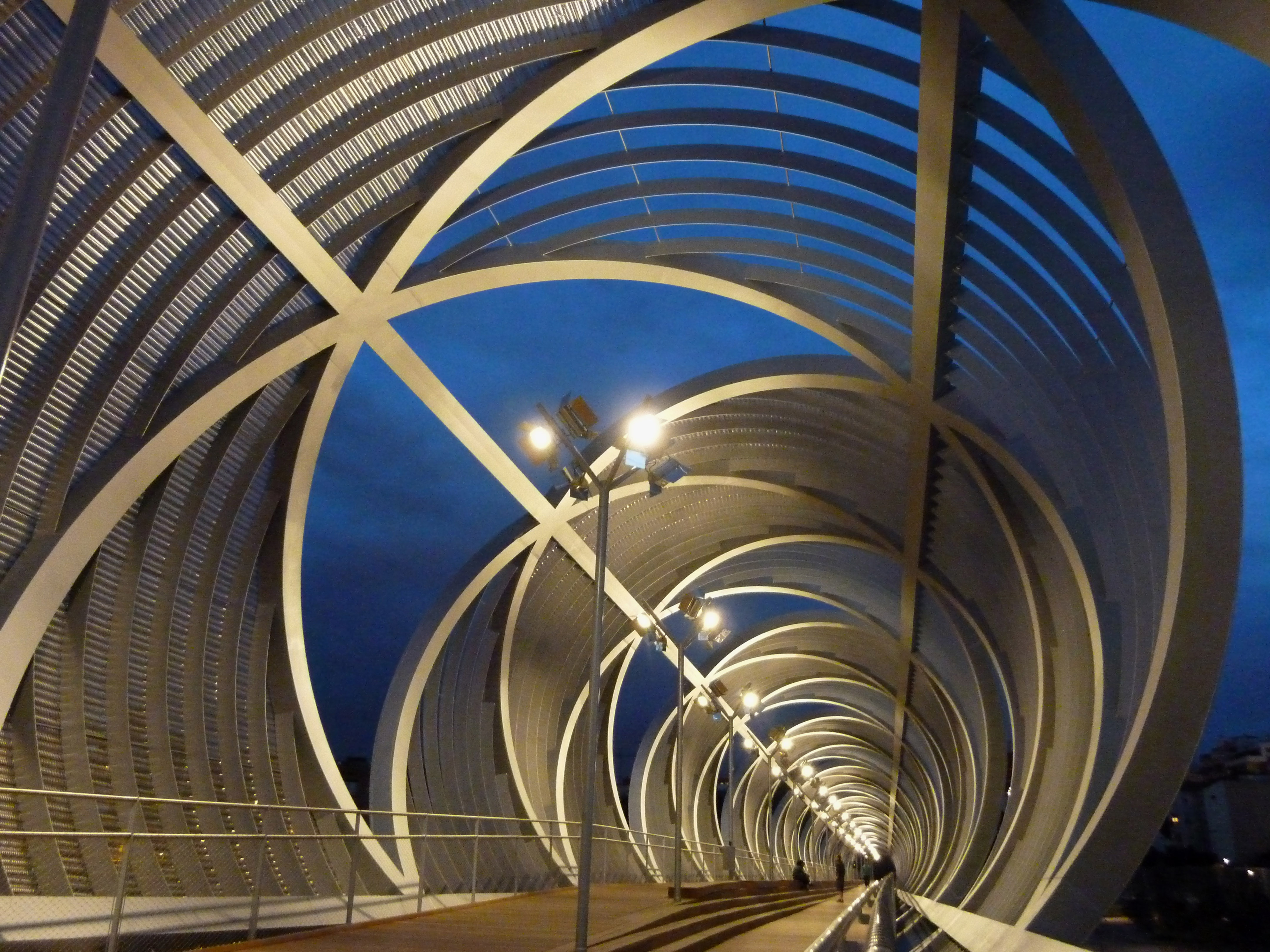 Night view of Arganzuela Bridge in Madrid (Spain).